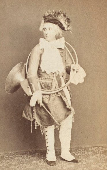 Carte de visite of Robert Soutar (1830–1908)